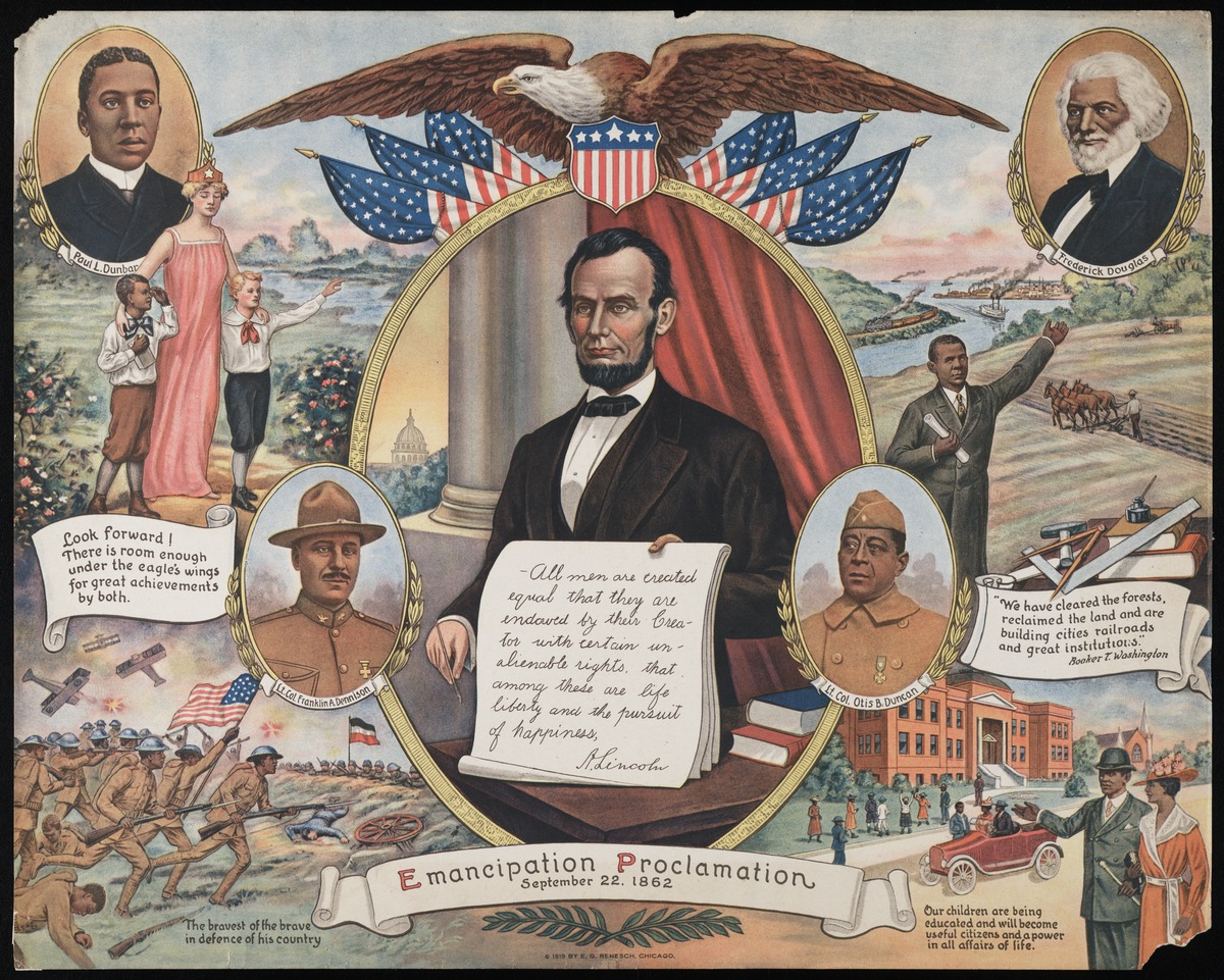 Emancipation Proclamation, by E.G. Renesch